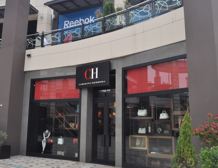 Boutique CH en el Boulevard del centro comercial Jockey Plaza, en Lima